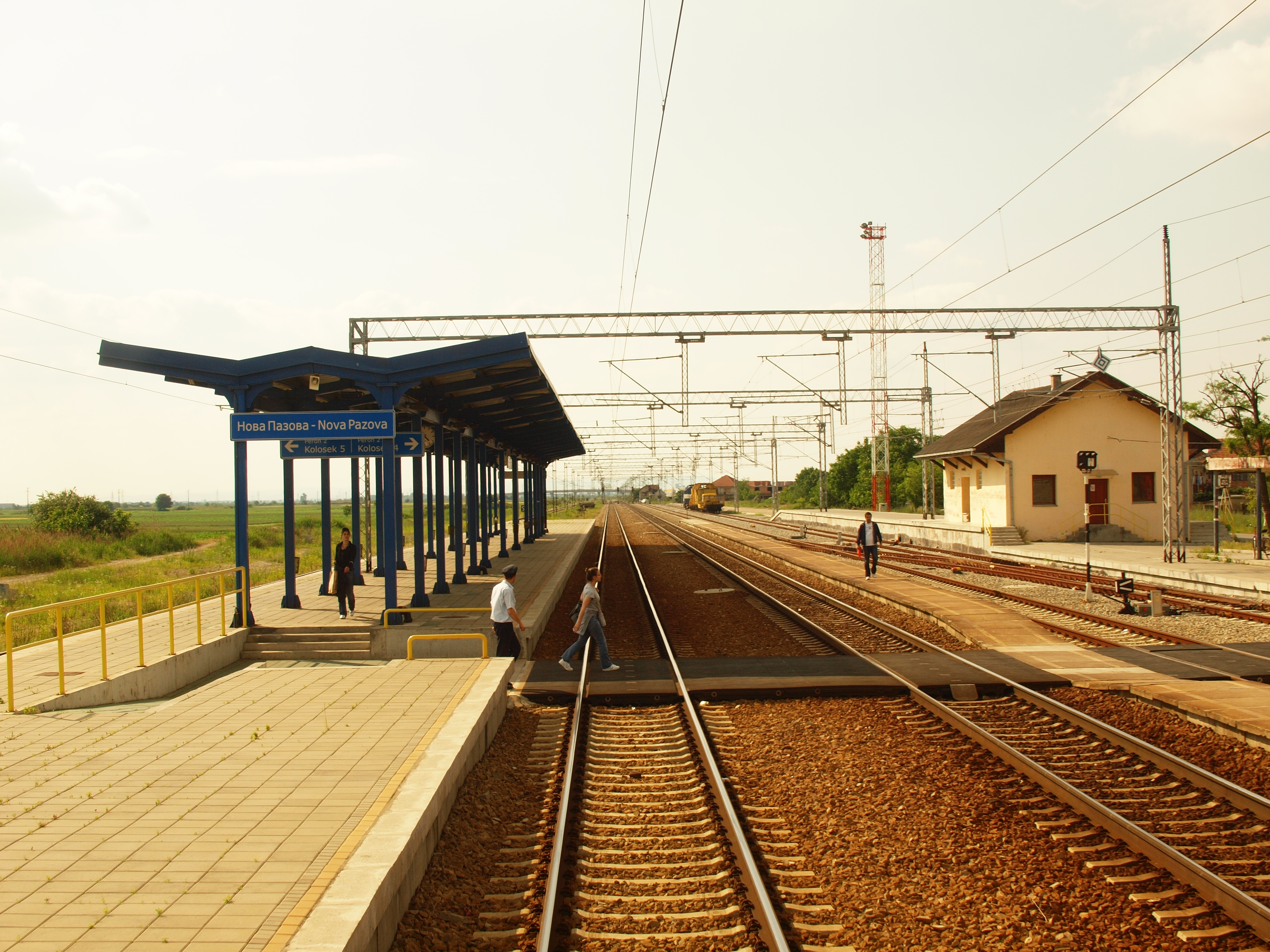 Newly overhauled railway station in the serbian part of the railway corridor X